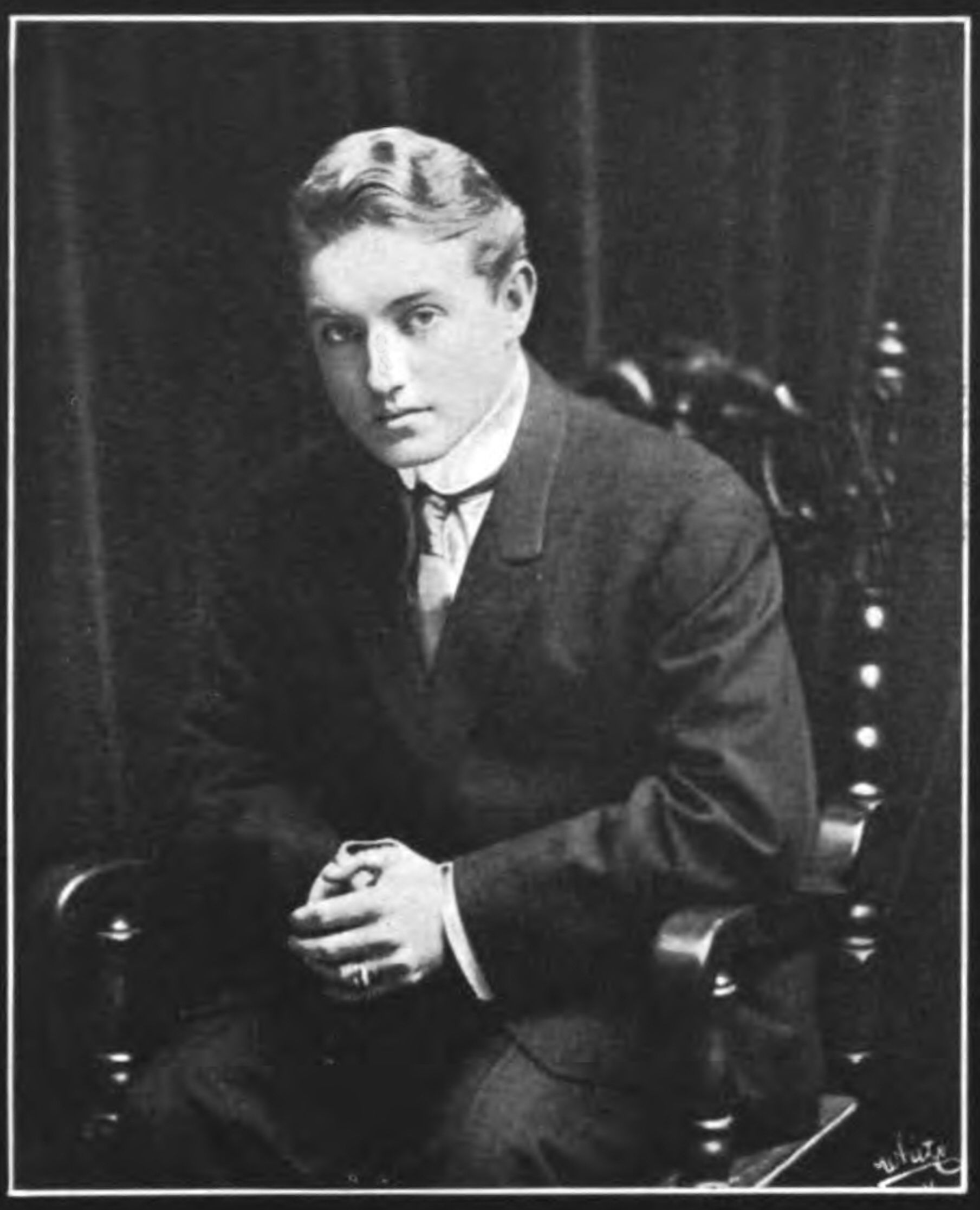 Alfred Kappeler ( b. circa 1876 Zurich, SWITZERLAND - d. Oct 29, 1945 New York, New York,) was an American actor